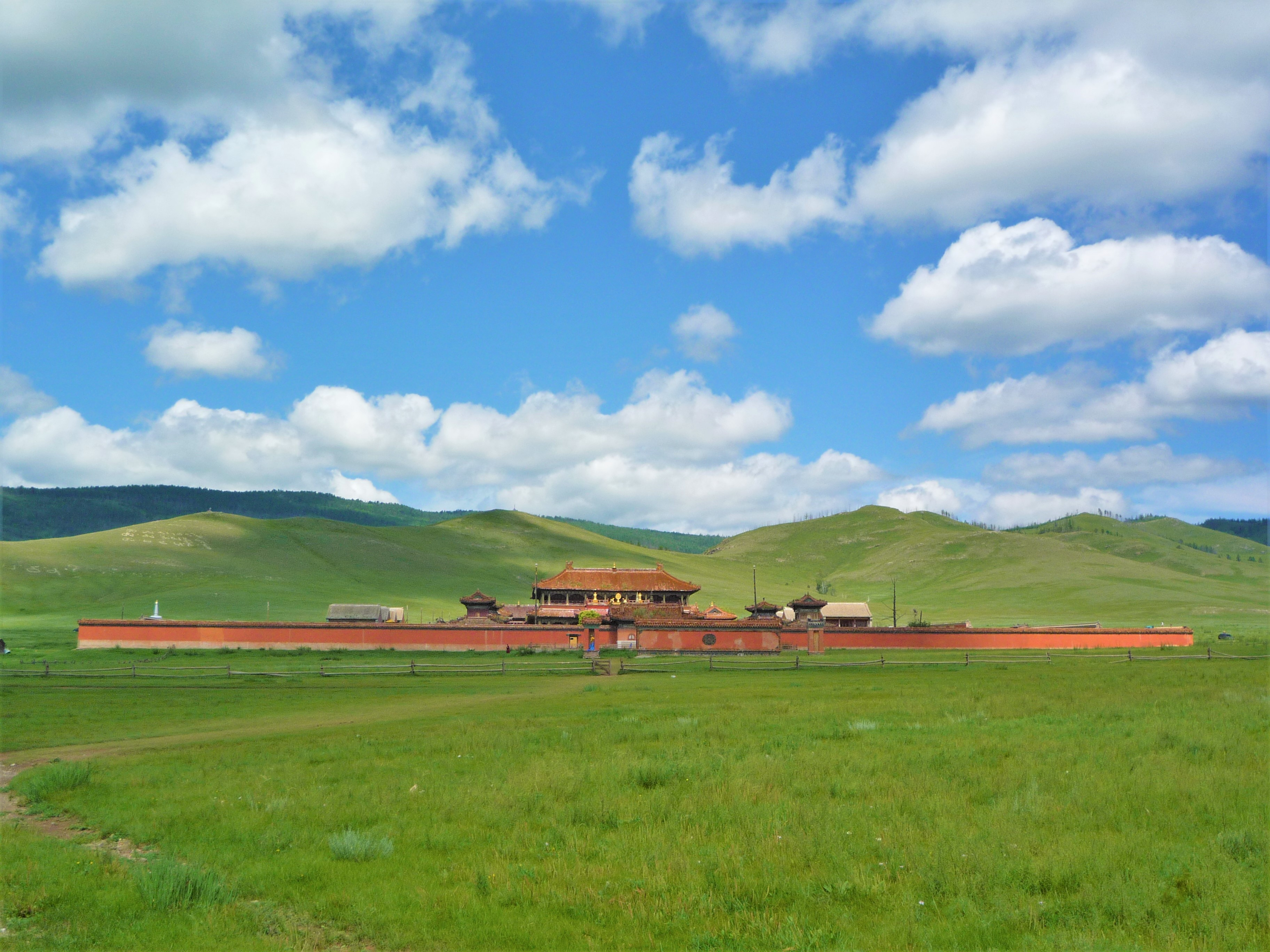 Amarbayasgalant Monastery, Selenge aimag, Mongolia